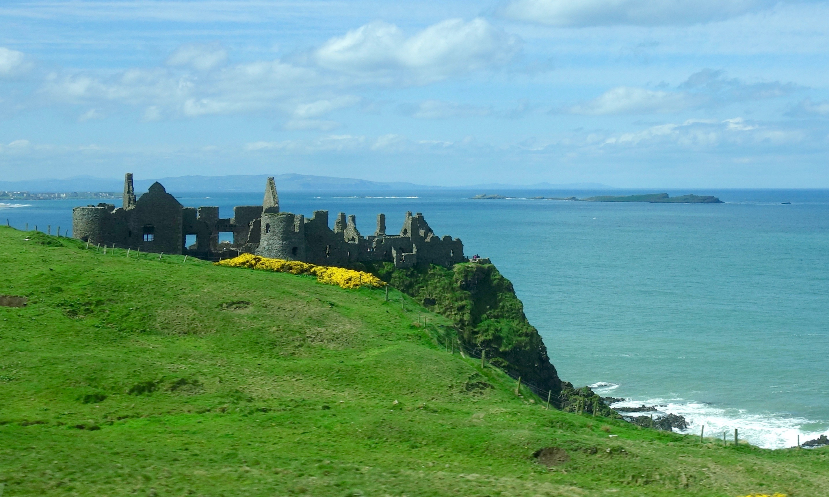 Dún Lios, Northern Ireland